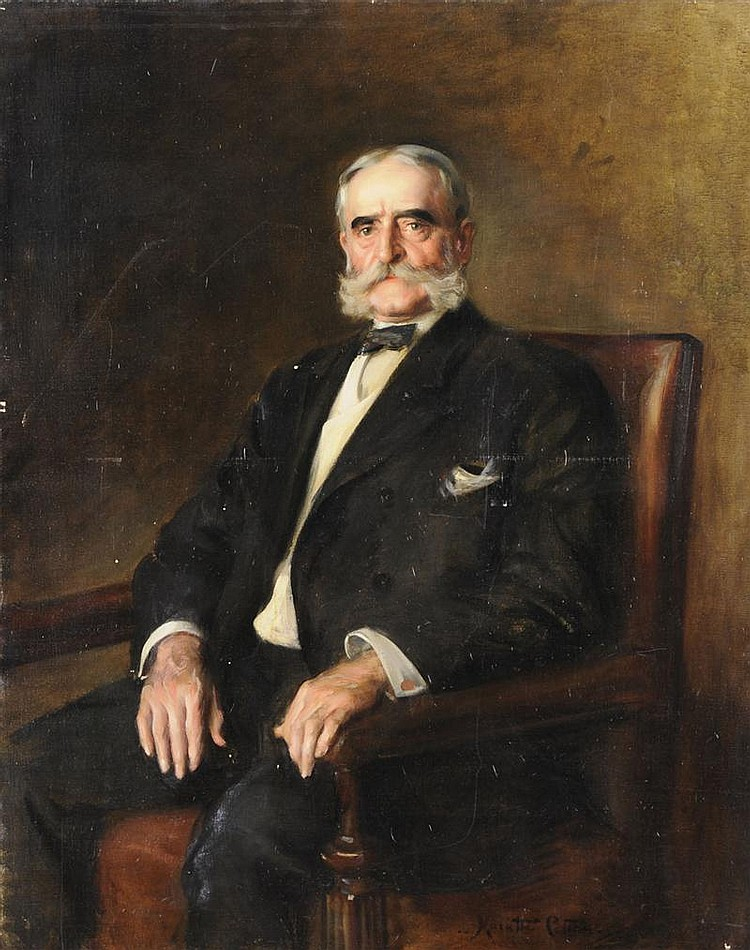 Portrait of Brayton C. Ives by Mariette Leslie Cotton (1907, oil on canvas, 35 1/2 x 29 3/4 inches)